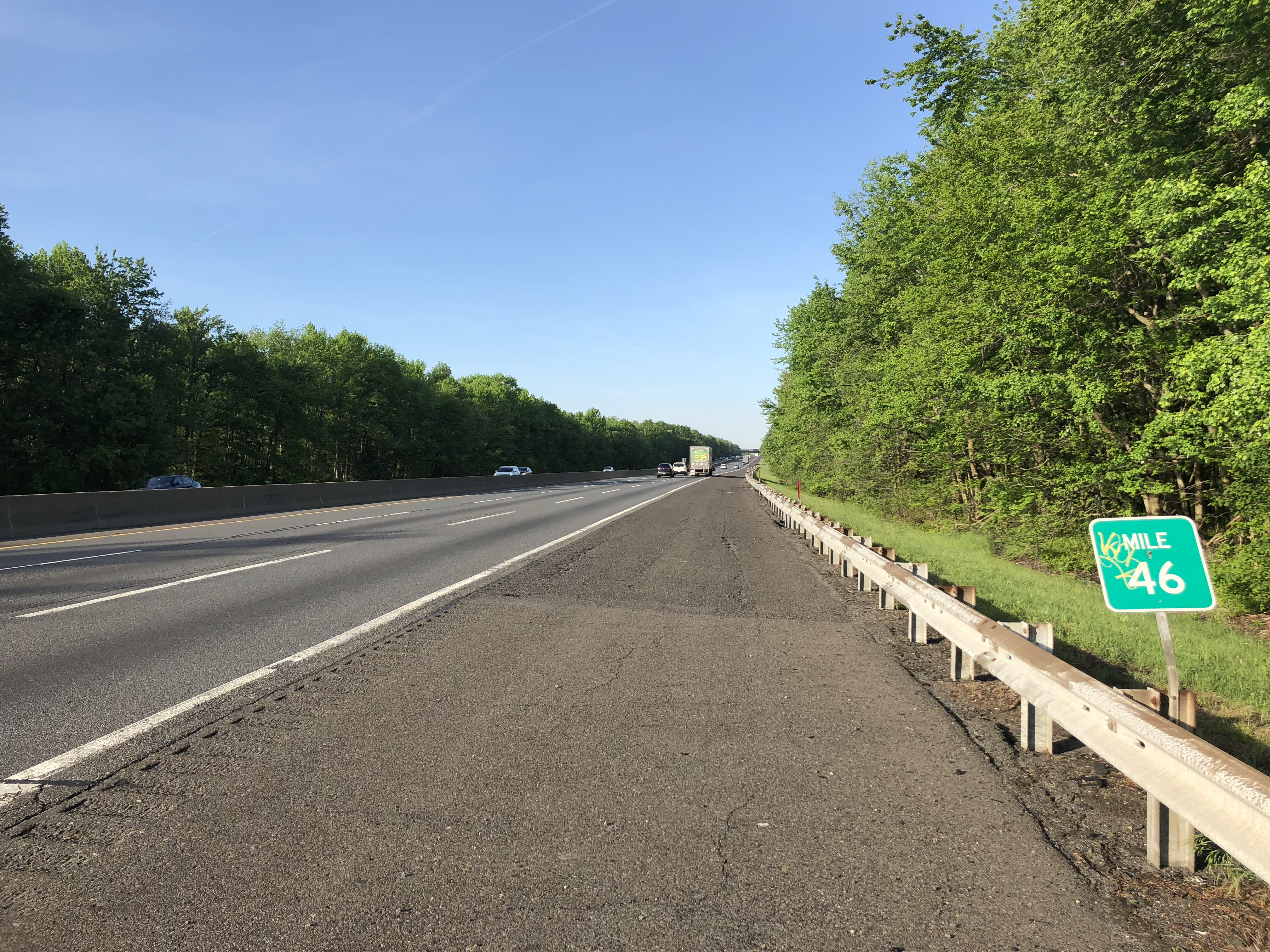 View north along New Jersey State Route 700 (New Jersey Turnpike) between Exit 5 and Exit 6 in Springfield Township, Burlington County, New Jersey